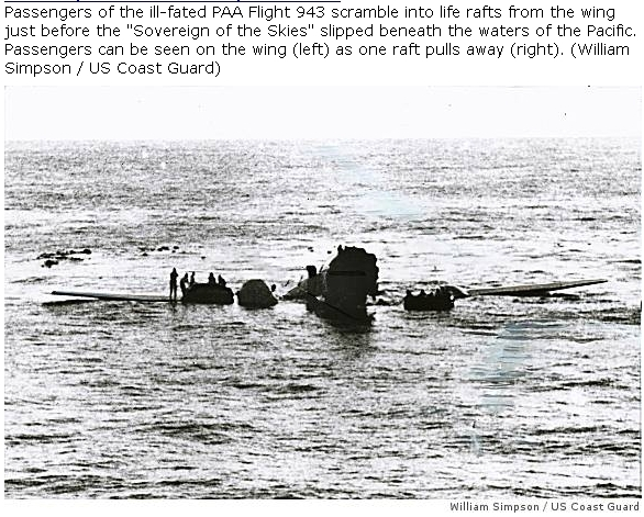 PanAmFlight6-Ditches-4